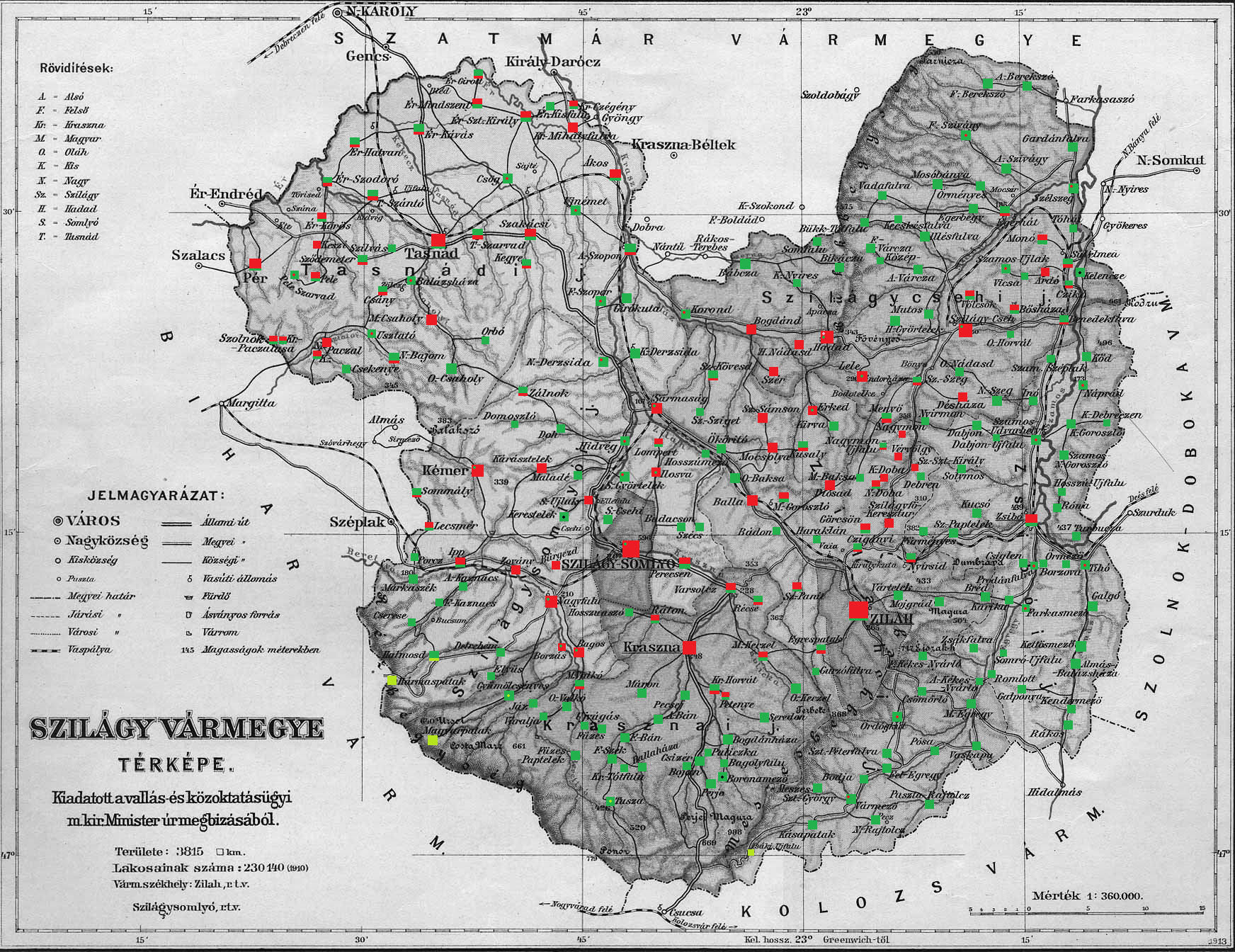 Ethnic map of the county (with data of the 1910 census). Key: dark green - Romanians; red - Hungarians; light green - Slovaks; pink - Germans; black - Roma. Coloured dots in plain rectangles imply the presence of smaller minority populations (generally more than 100 people or 10%). Multicoloured rectangles imply cities and villages with multi-ethnic populations with the order of the stripes following the ethnic composition of the settlement.